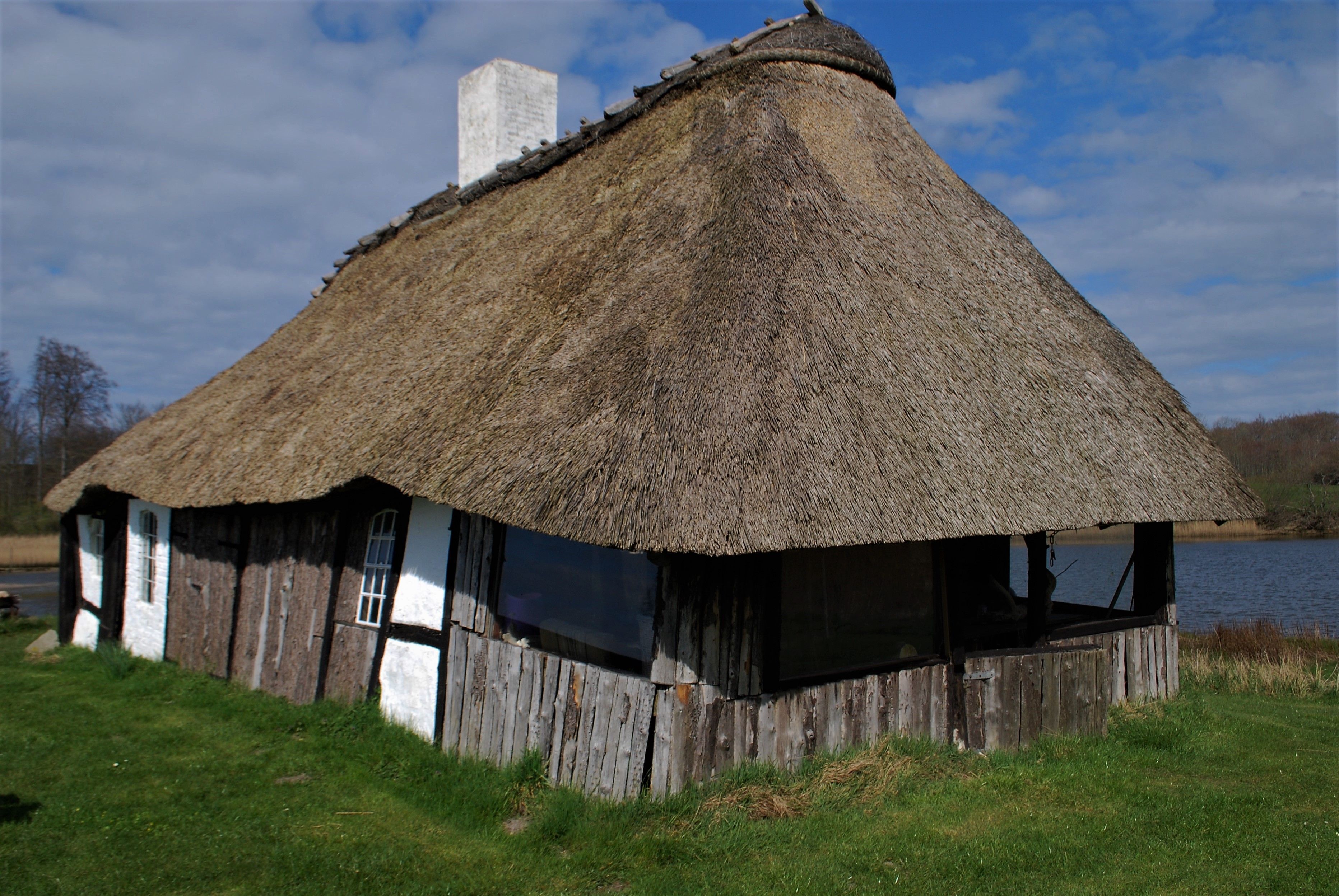 Stolbro, Als, Denmark